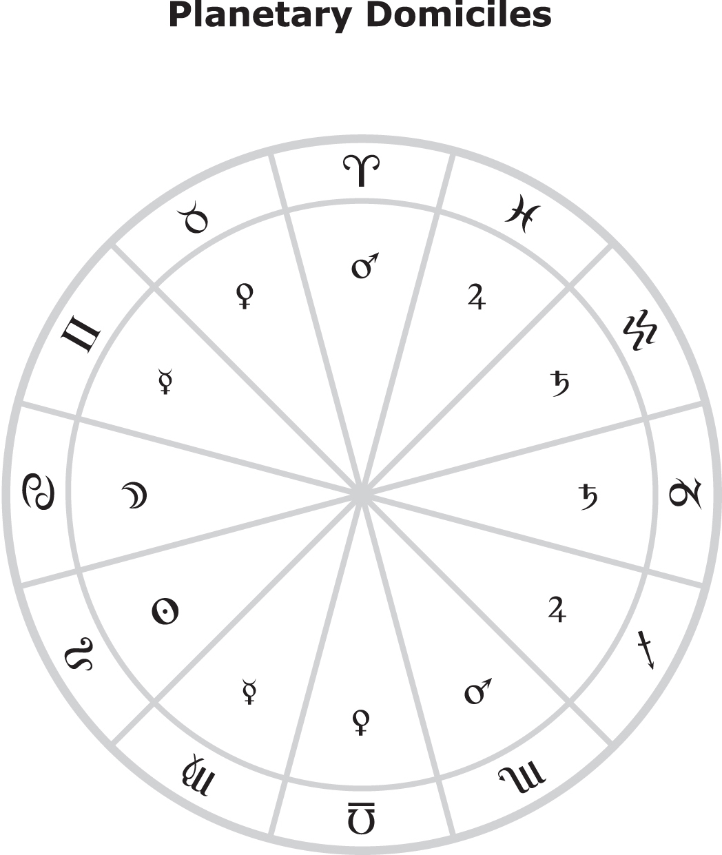 Original Planetary Domicile Rulerships in Astrology